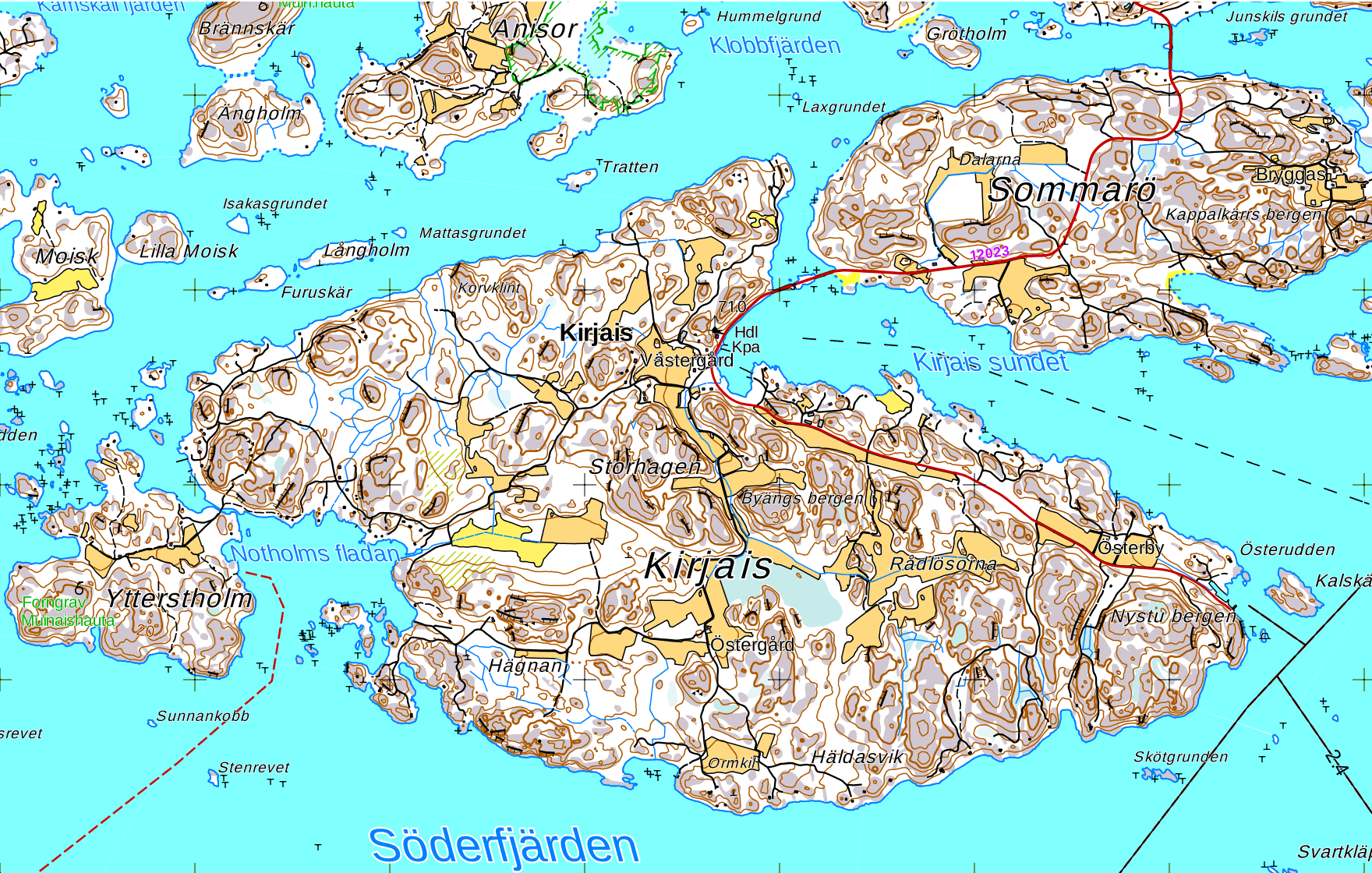 Map of Kirjais in Nagu. Crop from the terrain map of the National Land Survey.